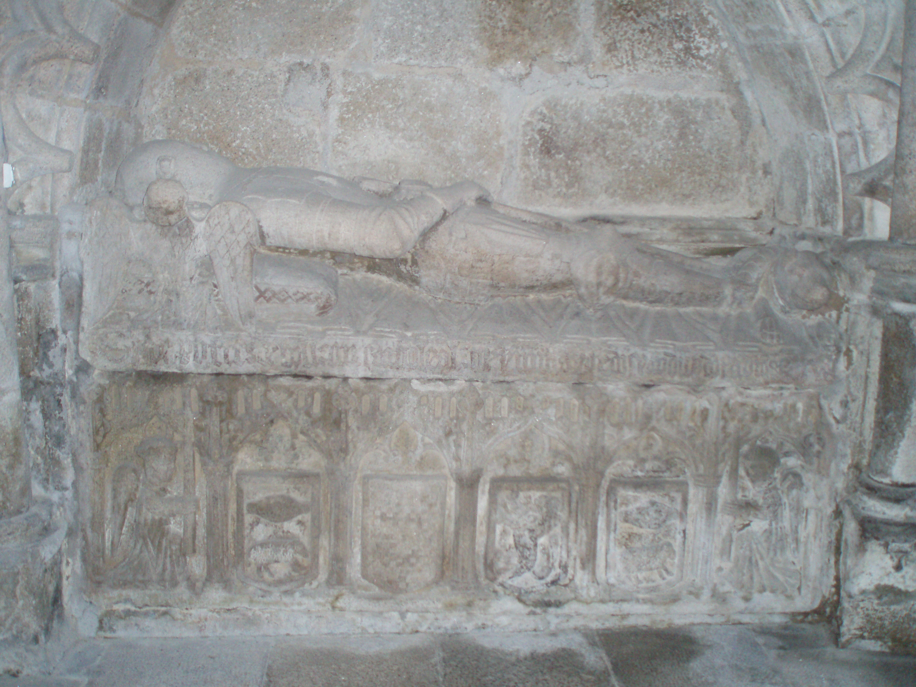 Church of San Peter of Lugo (Spain)